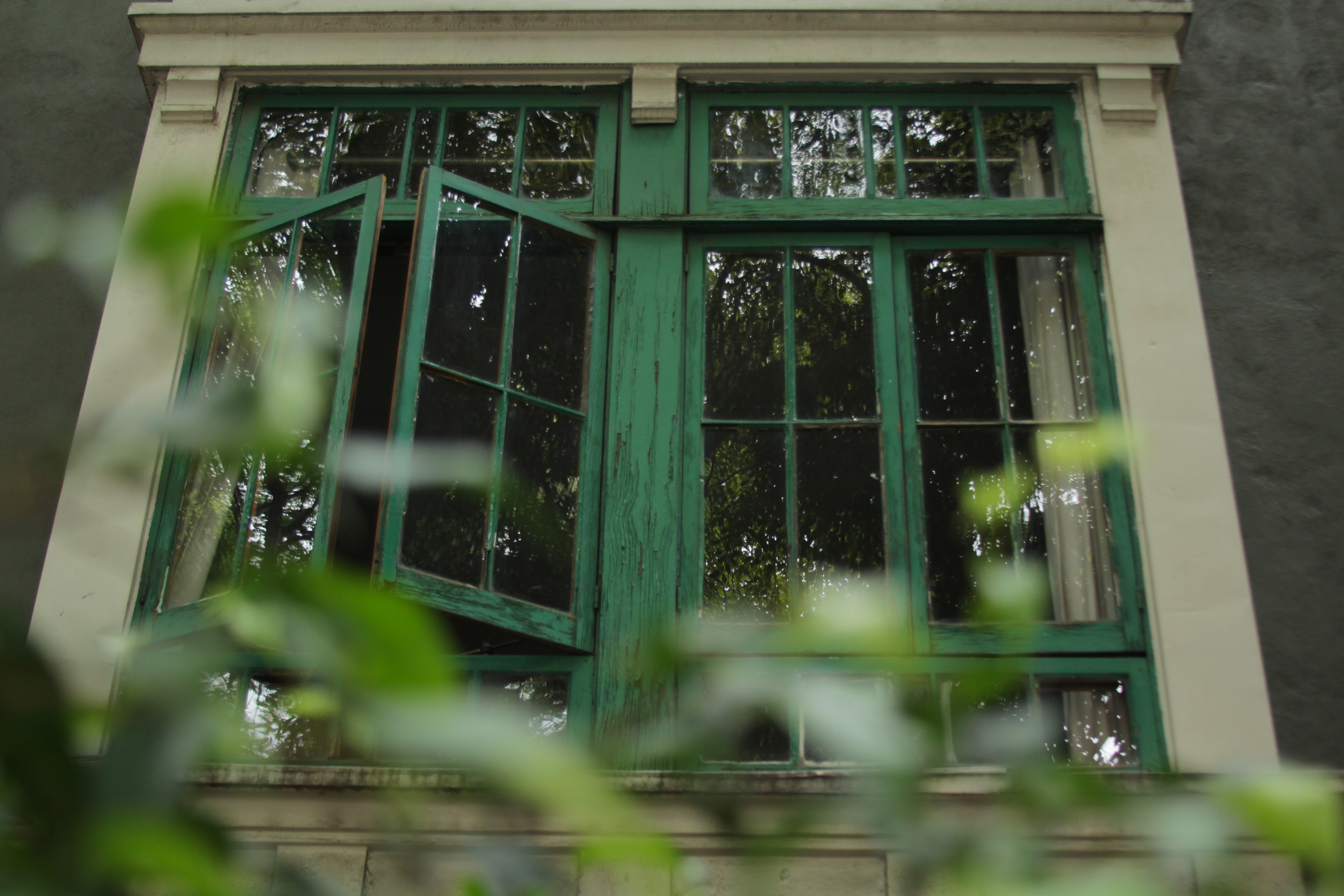 Window in the Edificio Condesa located in Col. Condesa in Mexico City.